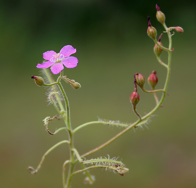 Gawati Davbindu Drosera indica in Narsapur, Andhra Pradesh, India.